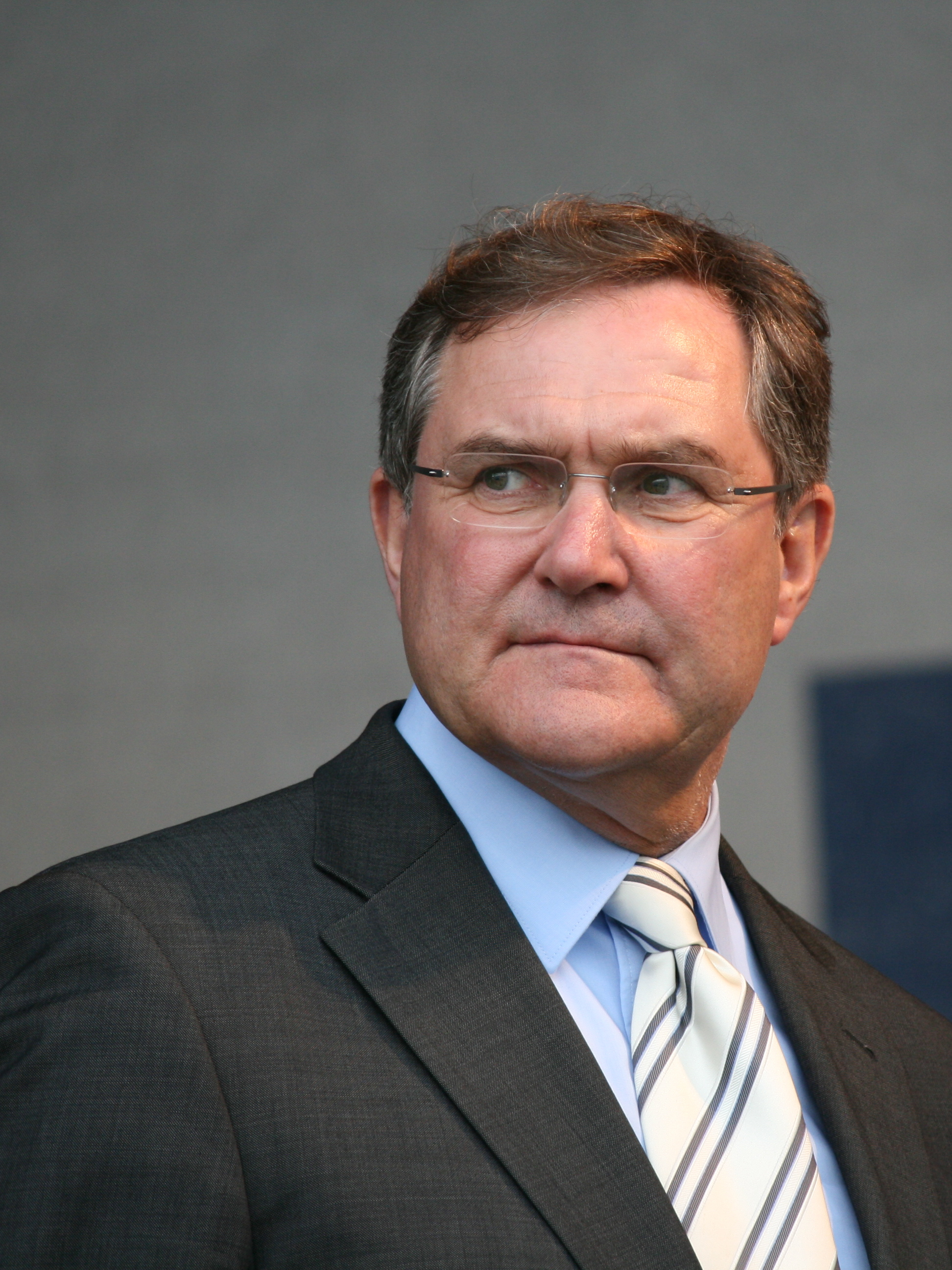 Franz Josef Jung , German politician (member of the CDU)